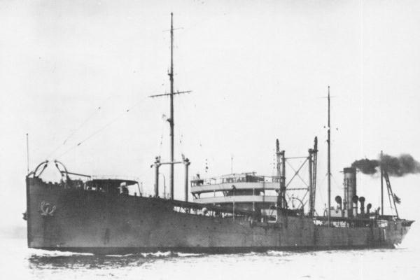 Japanese Oiler "Shiriya"(Shiretoko-class).